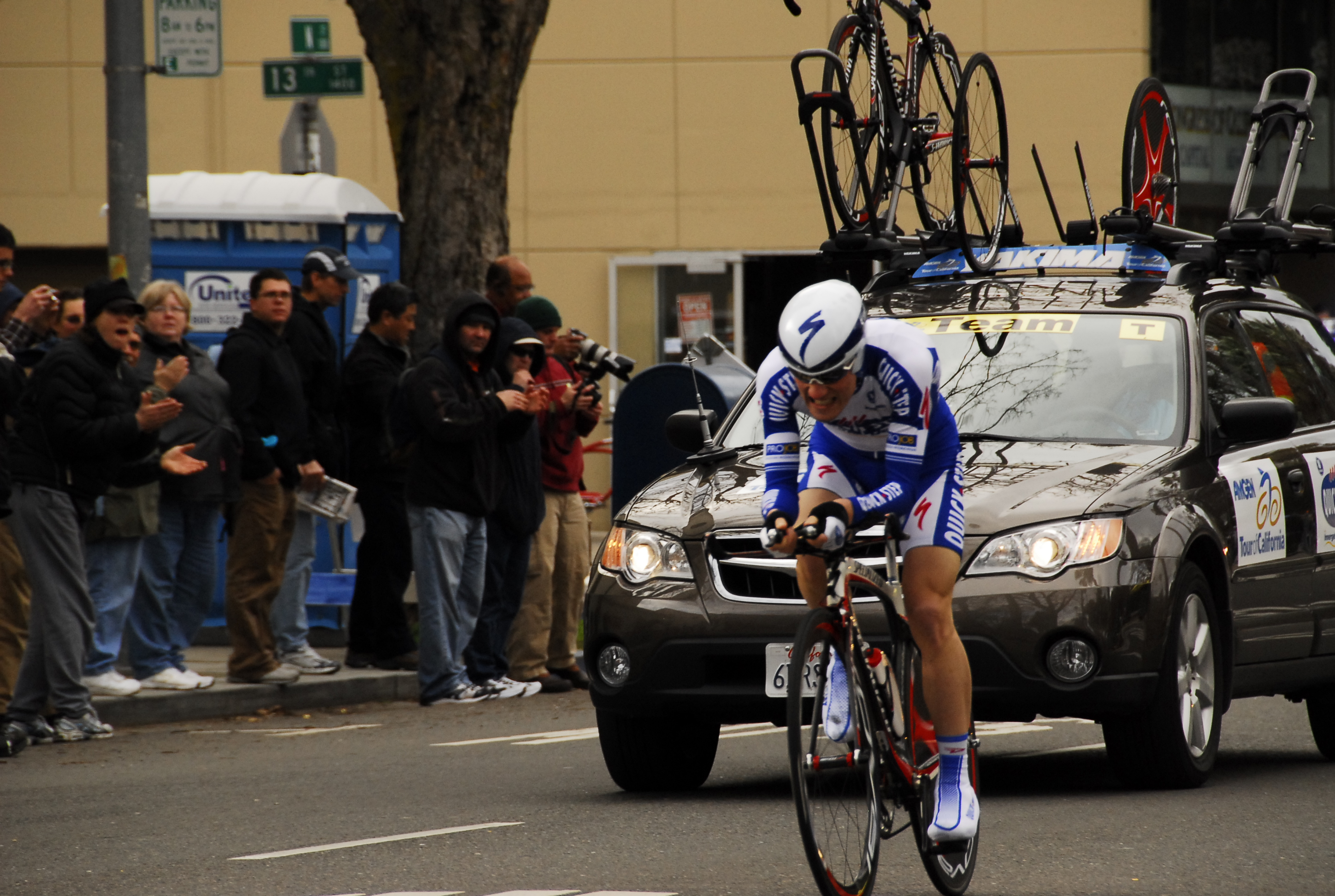 Kevin Seeldraeyers, Tour of California